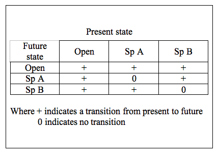 Matrix explaining possible succession patterns in the next time interval given the current species present.